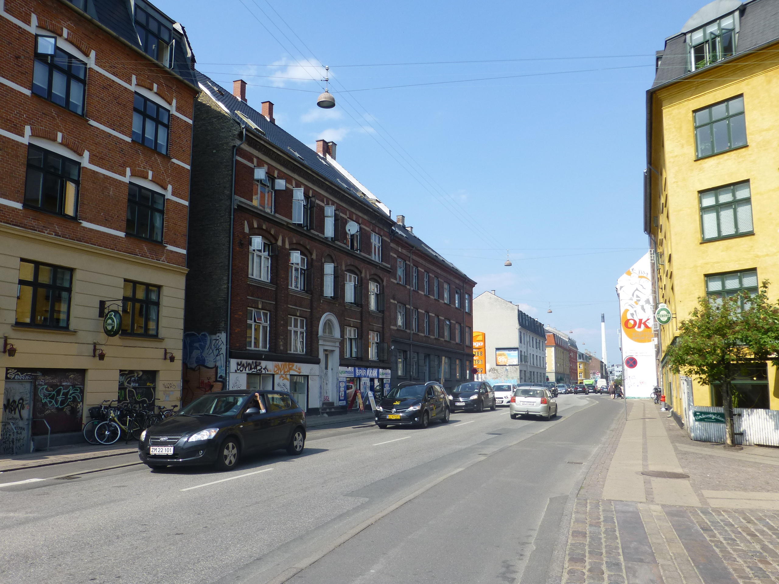 The street Nordre Fasanvej in Nørrebro in Copenhagen.